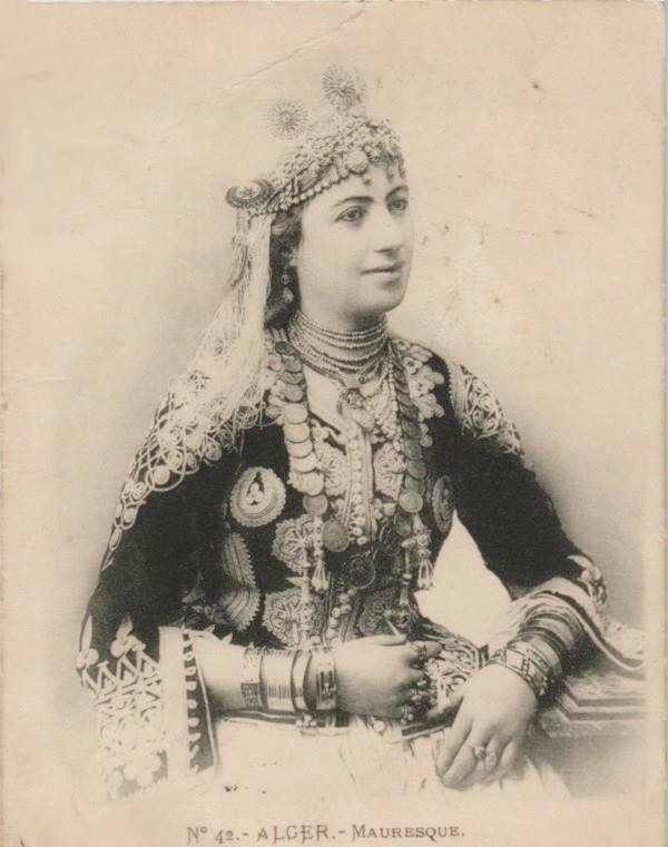 A woman from (France ), wearing the "Karakou", c. 1890s